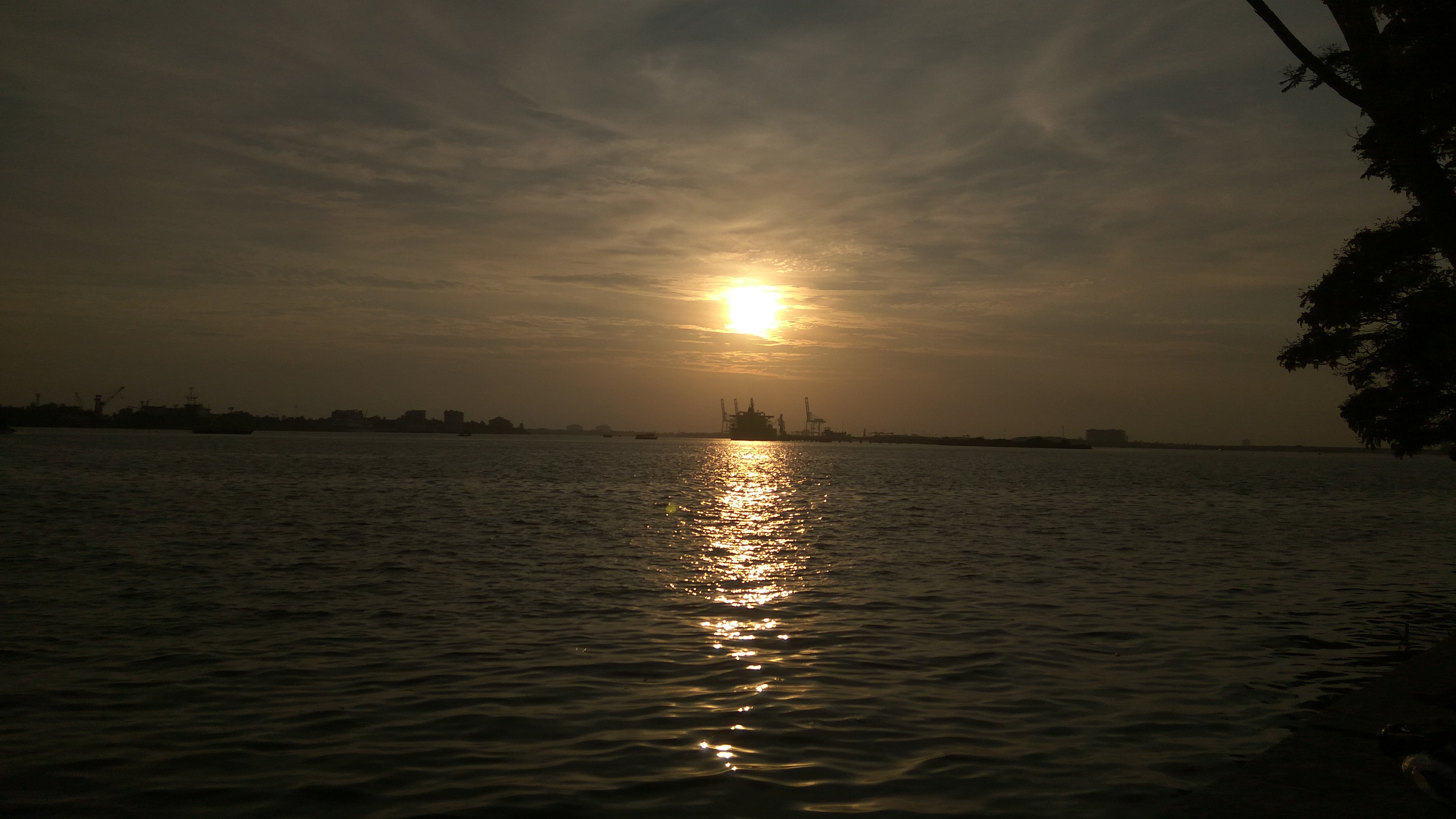 Sunset view in Cochin Shipyard.